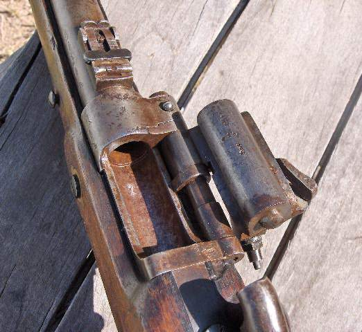 Open position of Snider-Enfield MKIII Carbine's breech.